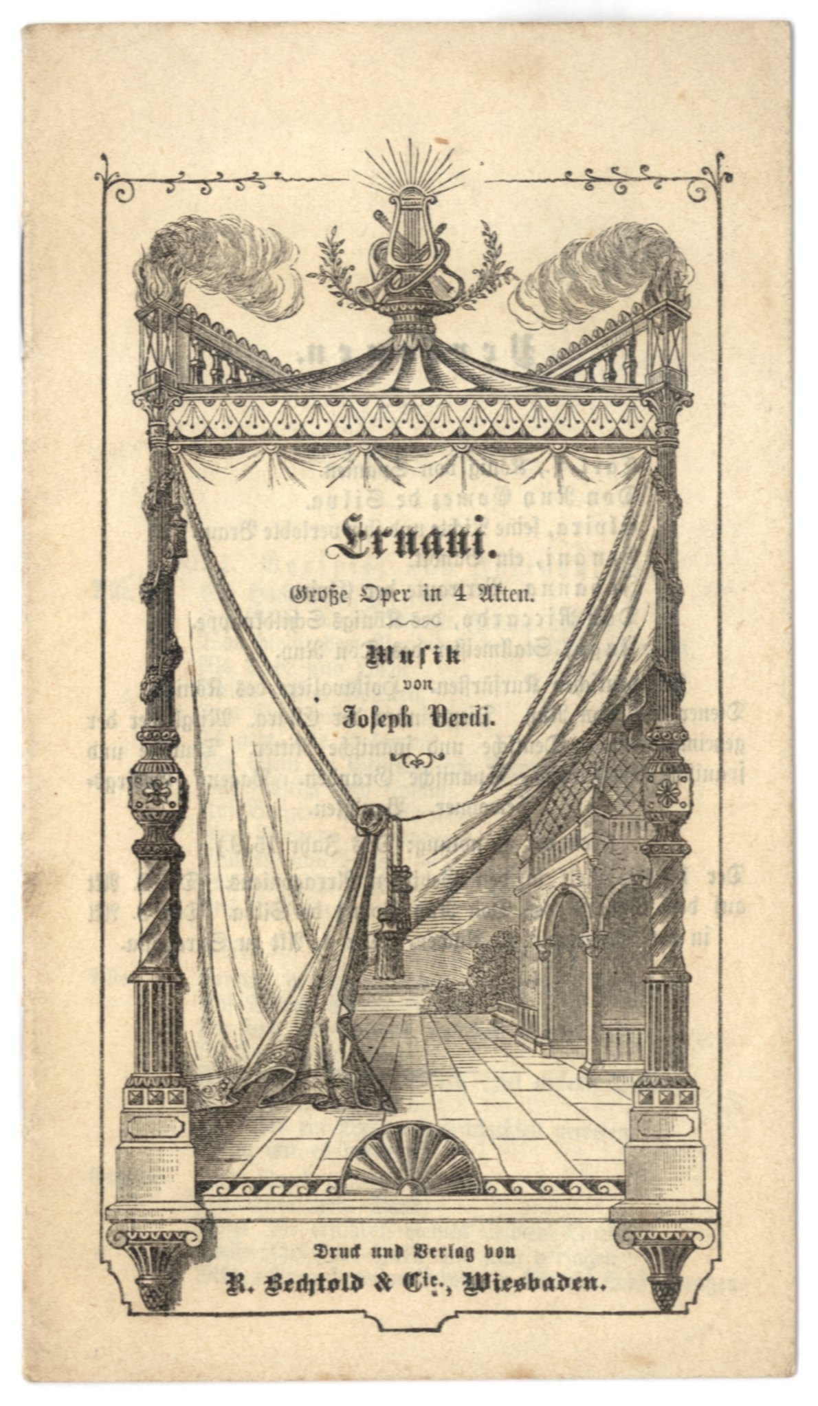 Giuseppe Verdi, libretto of Ernani, German, about 1890